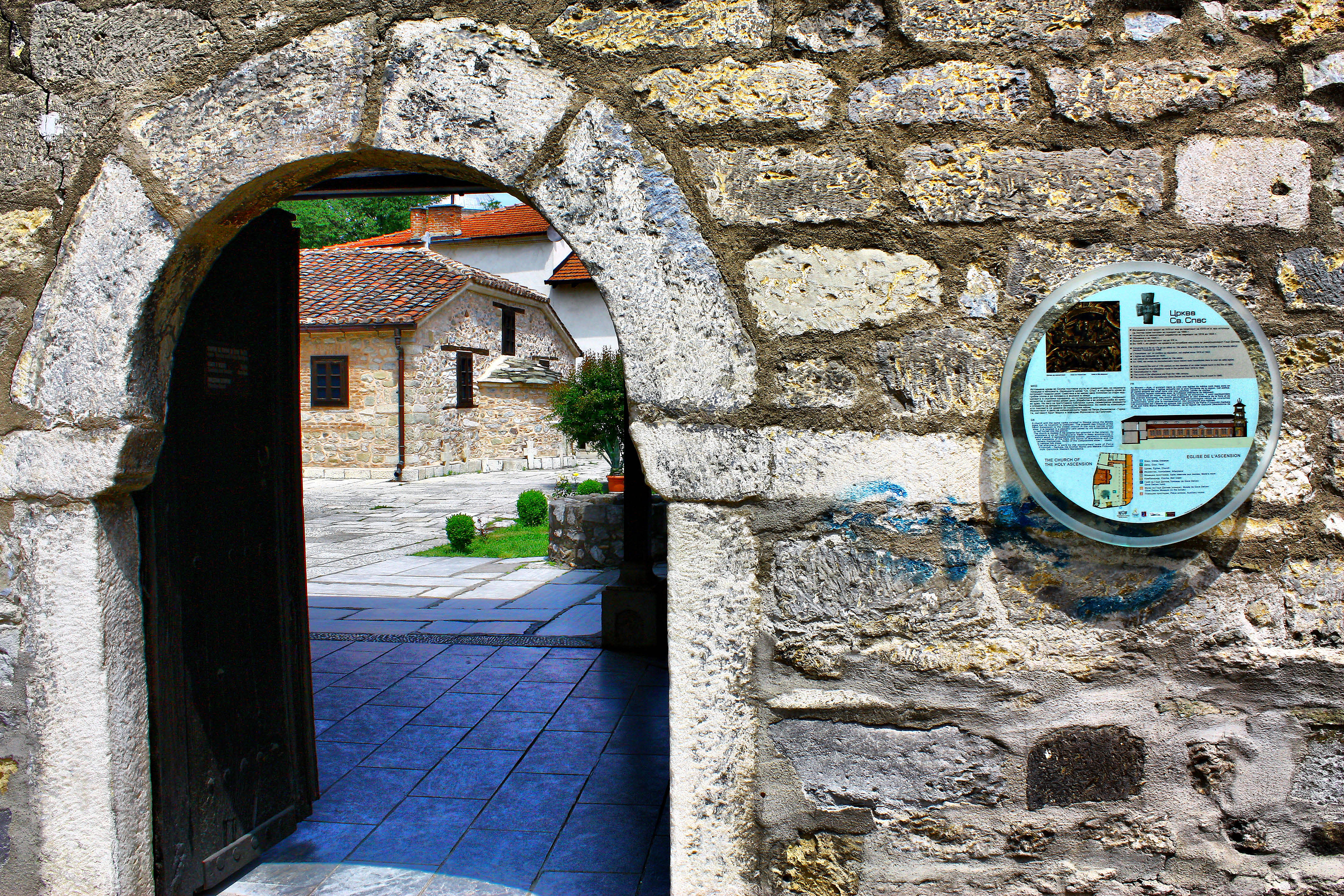 Church of Holy Salvation in Skopje, Macedonia